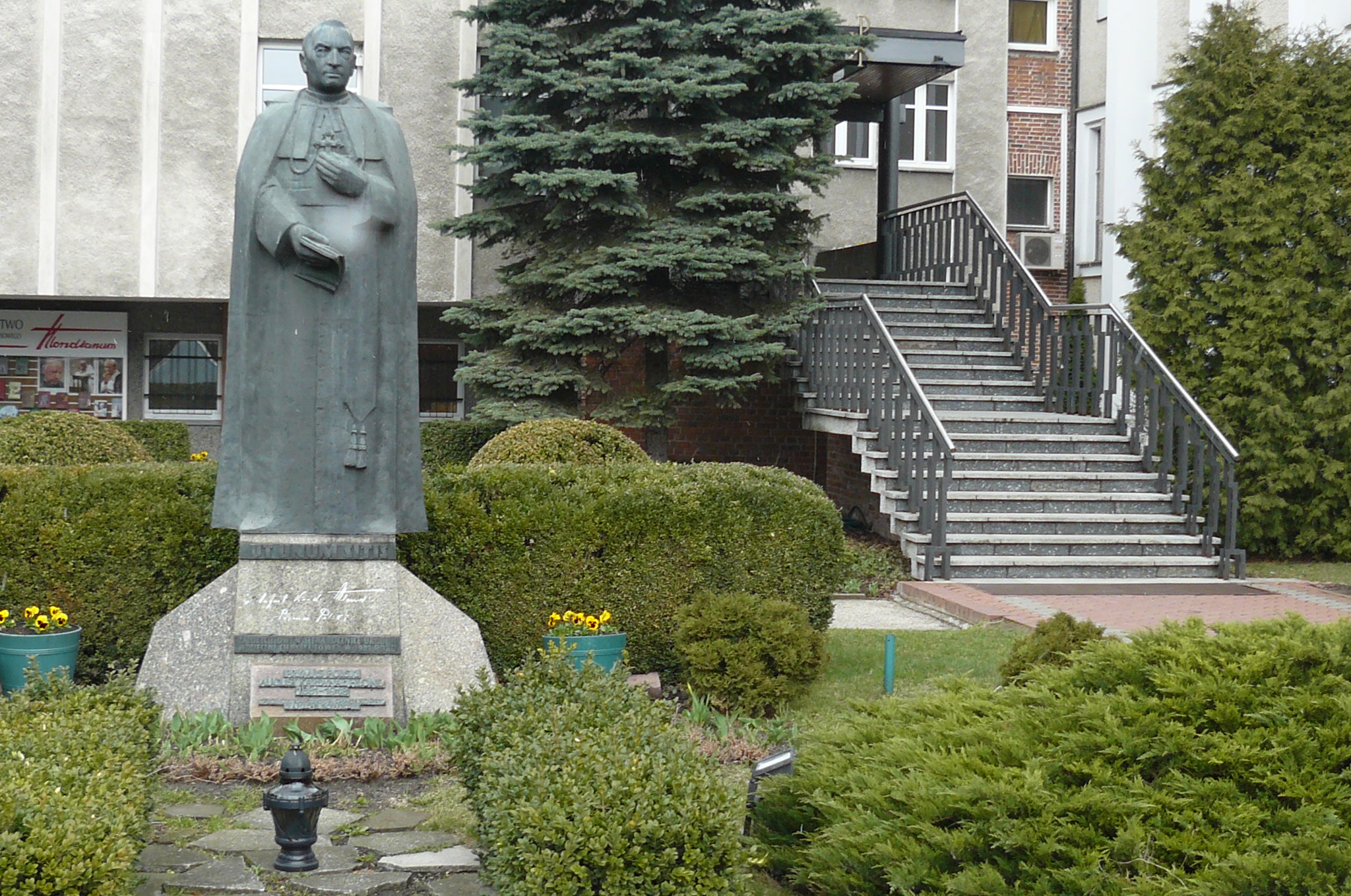 August Hlond Monument, Poznan. Ostrow Tumski Island.